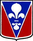 Logo of the School of Fine Arts at the Universidad Nacional de Tucumán